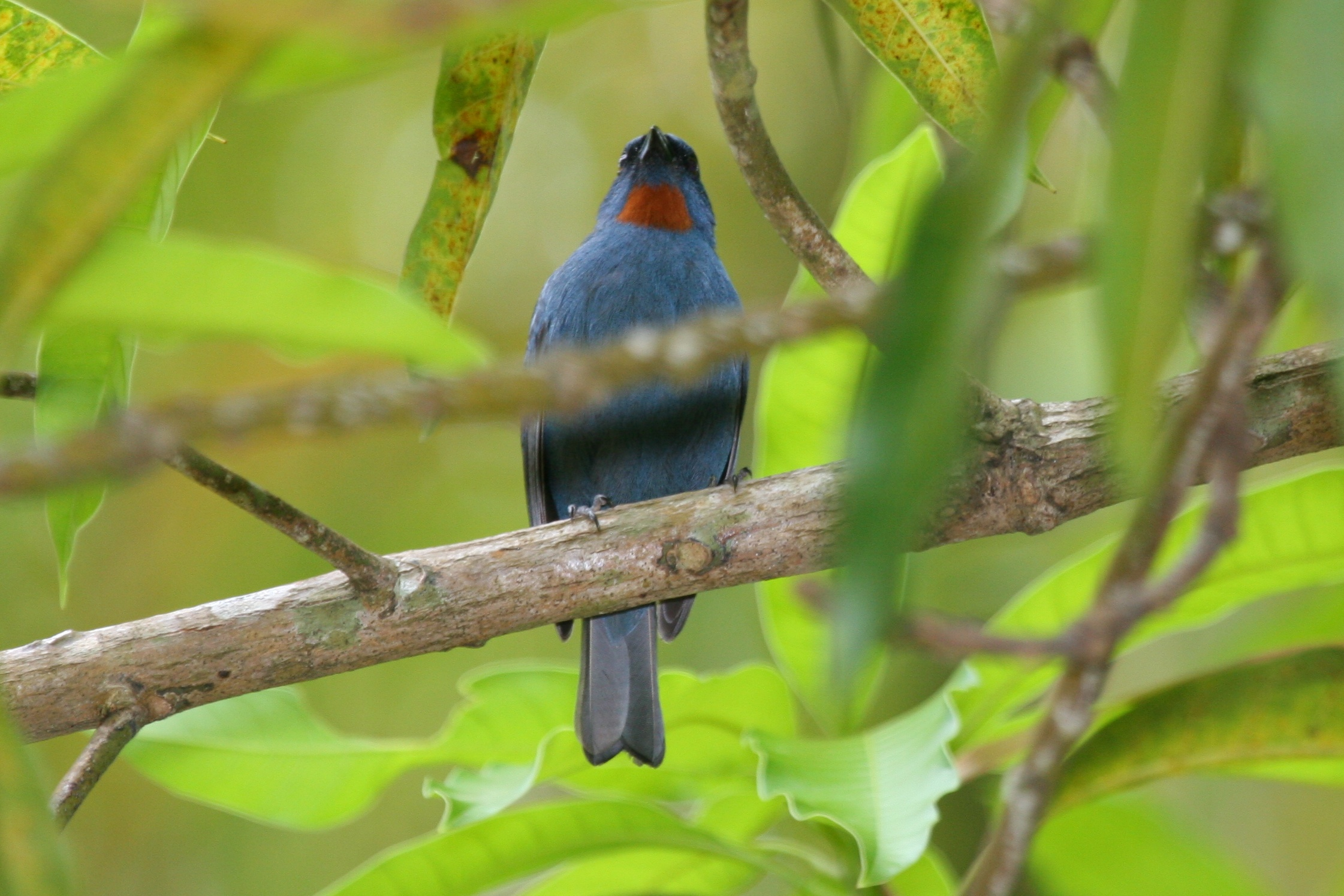 Orangequit (Euneornis campestris) Dysmorodrepanis 13:22, 29 May 2008 (UTC)